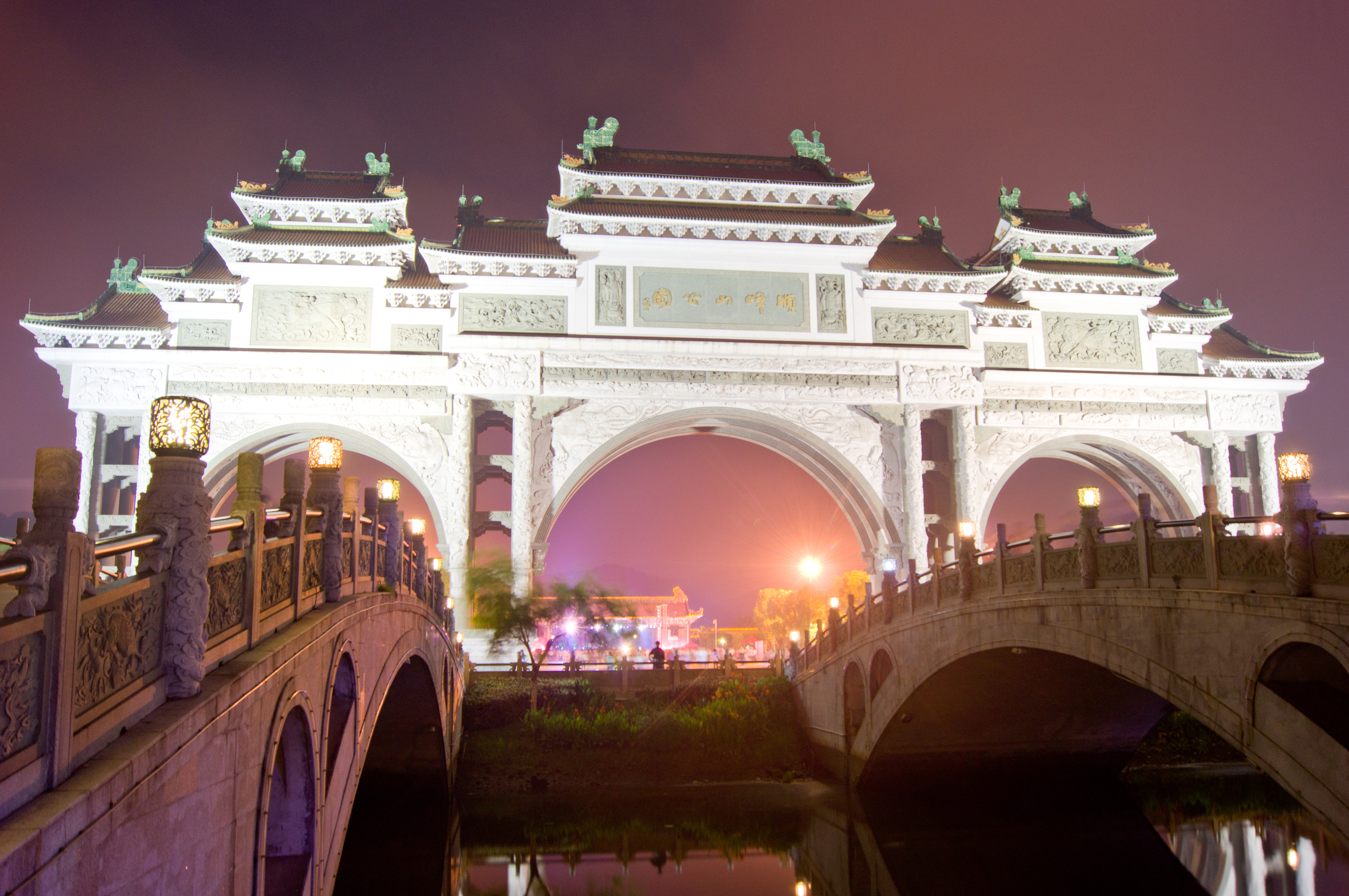 Paifang in Shunfeng Park, Shunde District, Foshan City, Guangdong